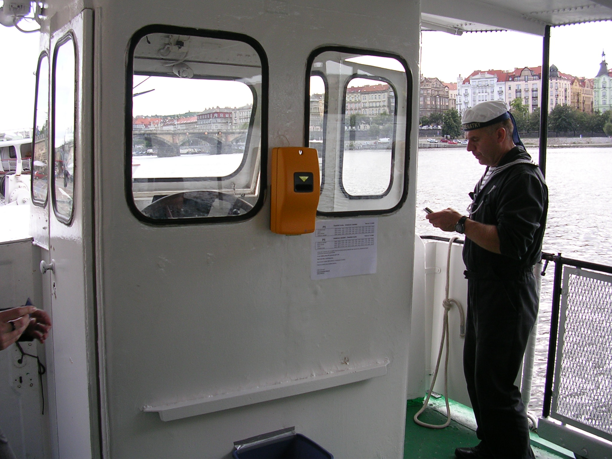 Ferry P5, Prague, the Czech Republic.